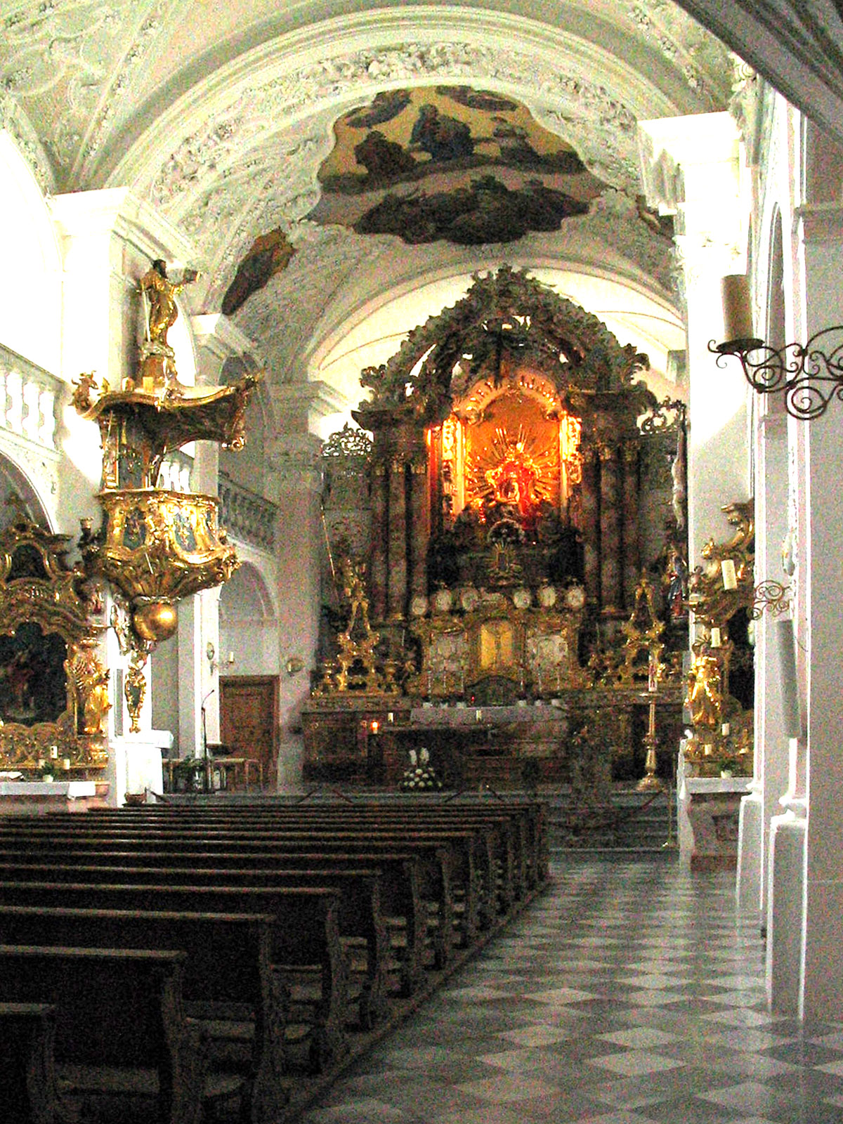 Baroque interior of major (i.e. St. George's) church